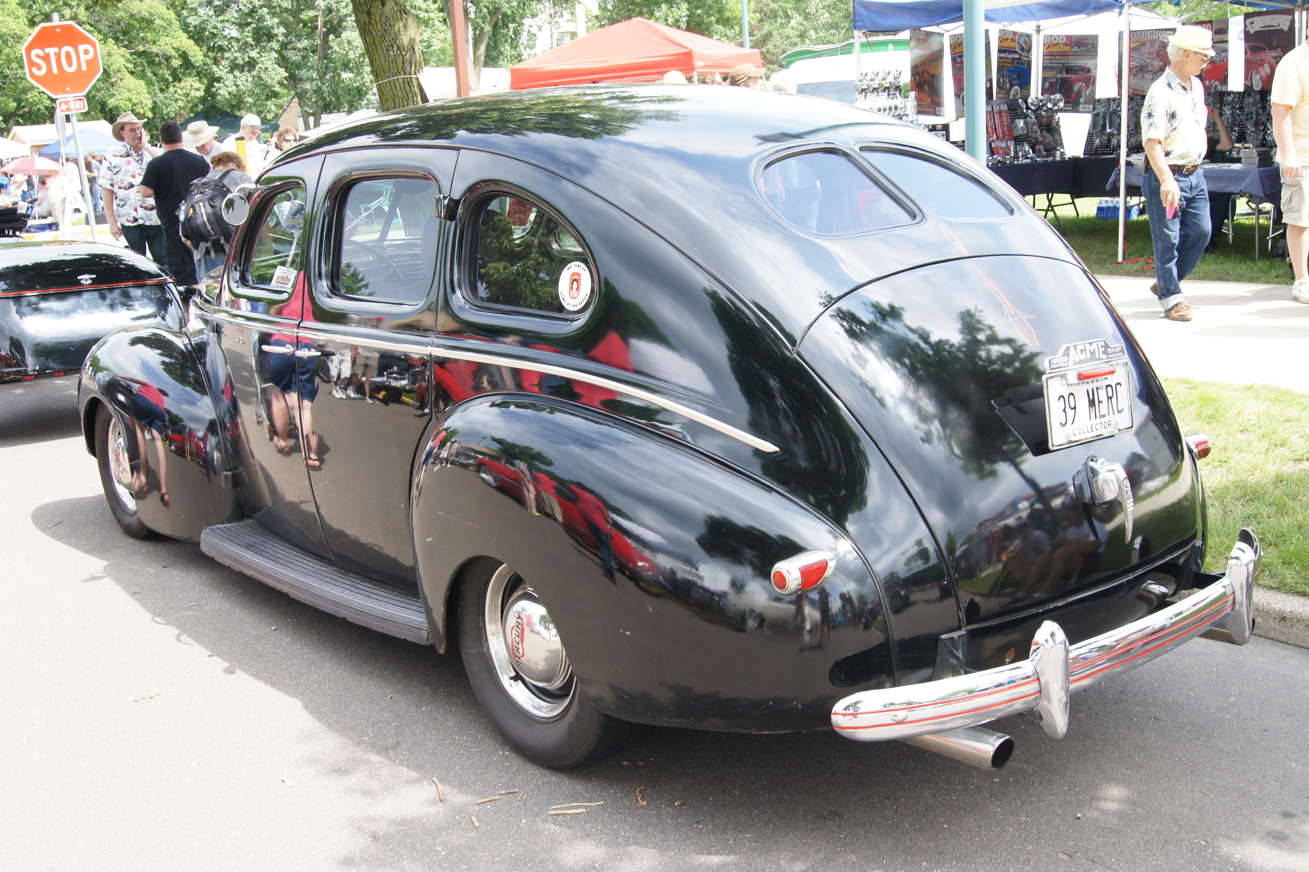 MSRA “BACK TO THE 50′s” 40th ANNIVERSARY June 21-23, 2013 State Fairgrounds St. Paul Minnesota More Car Pictures